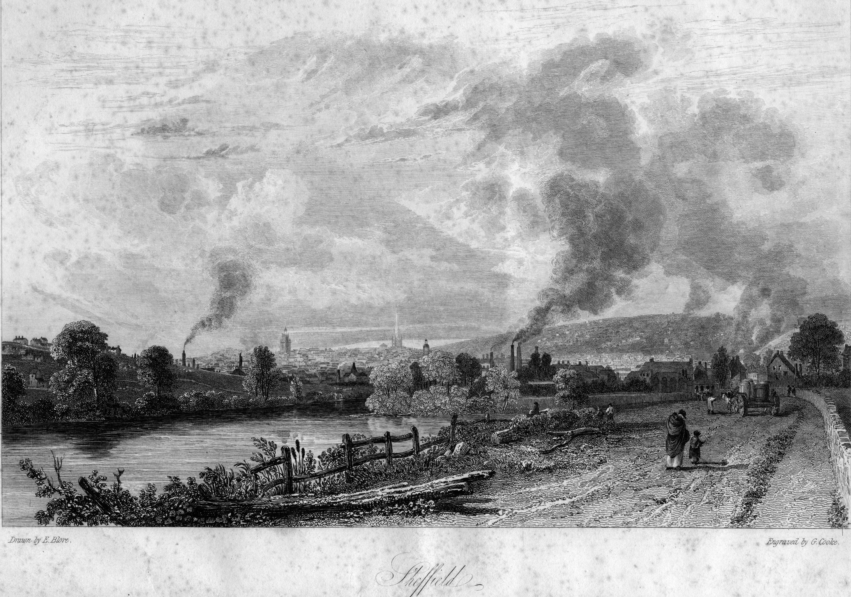 Sheffield from the Attercliffe Road as it appeared c1819.